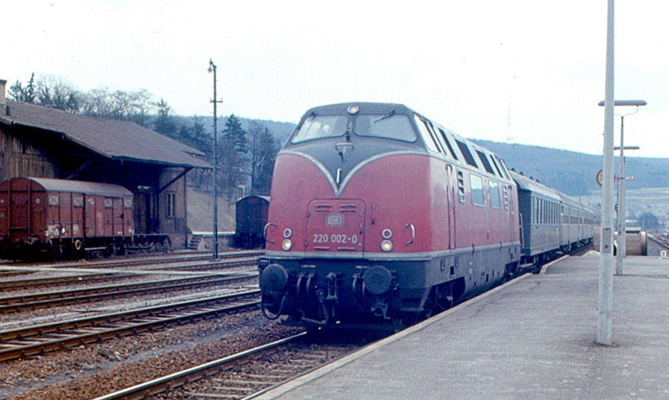 Original description: V 200 diesel locomotive (later class 220) was built in 1956-1958. Top speed was 140 kph (87 mph). DB ordered 88 units, Another 50 were built lin a follow-on class.